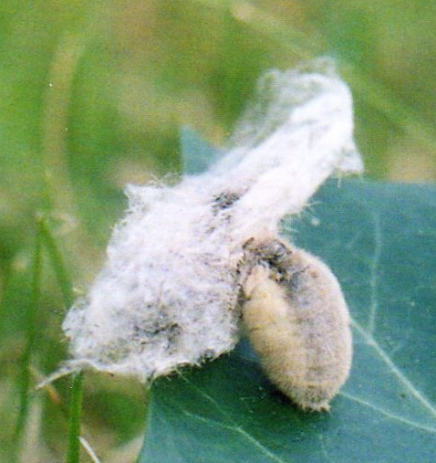 Orgyia antiqua female on ivy (not food plant)